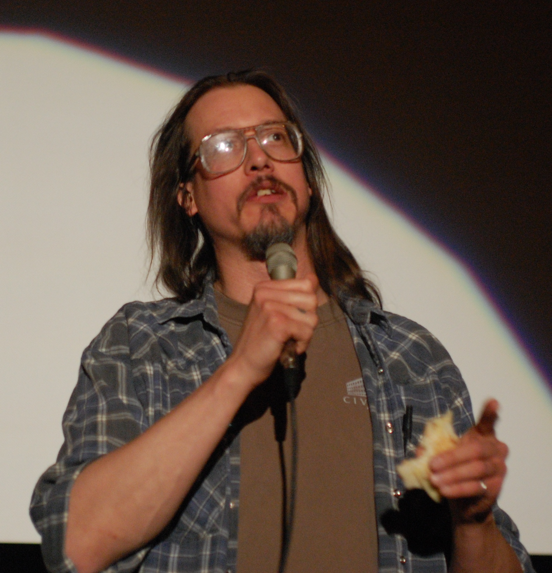 March Borchardt eats a sandwich at a Minneapolis preview screening at the Riverview Theater of The Hagstone Demon May 8, 2008.